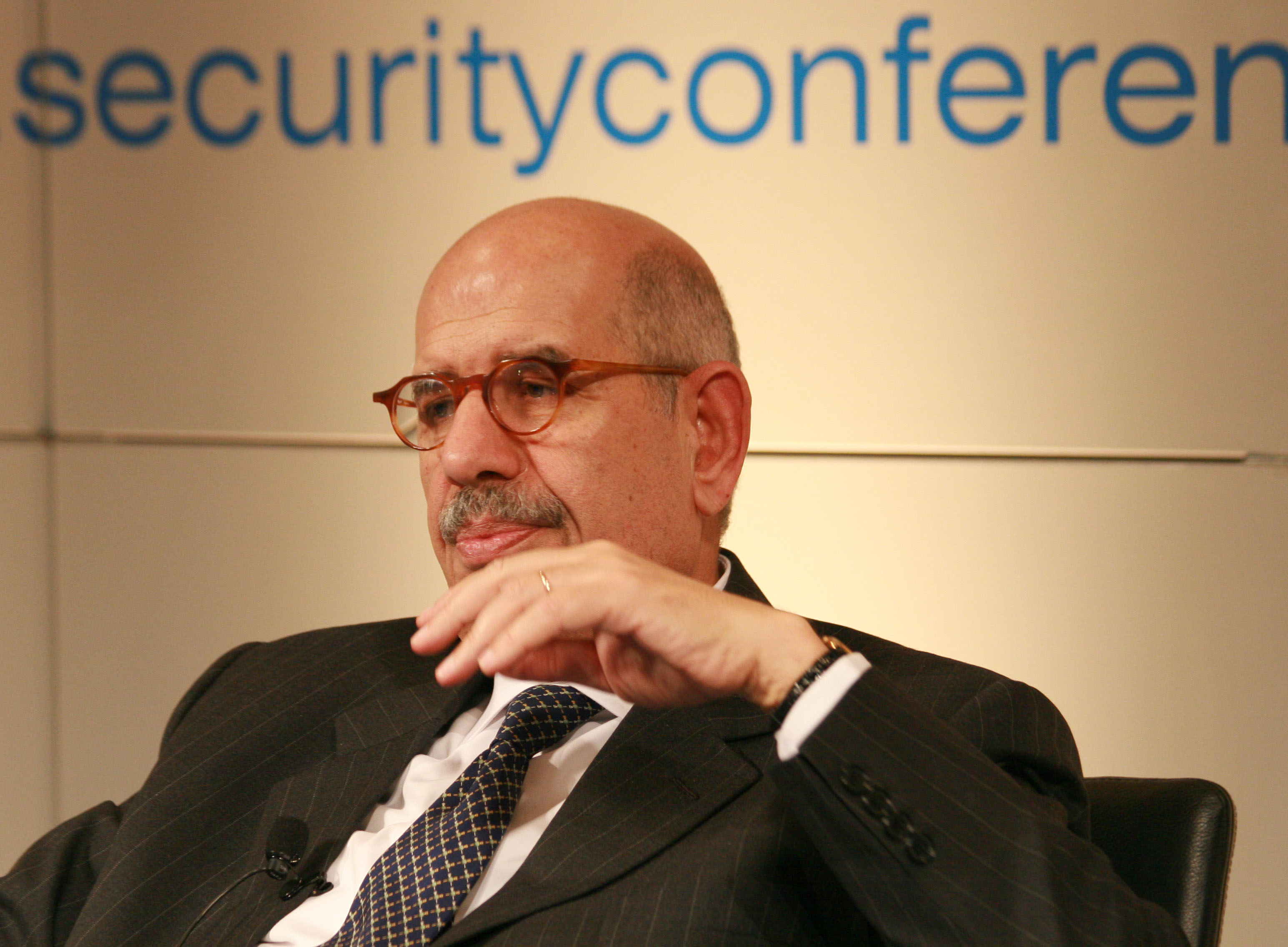 45th Munich Security Conference 2009: Dr. Mohamed El Baradei, Director General, International Atomic Energy Agency, Vienna, on Fridayafternoon.